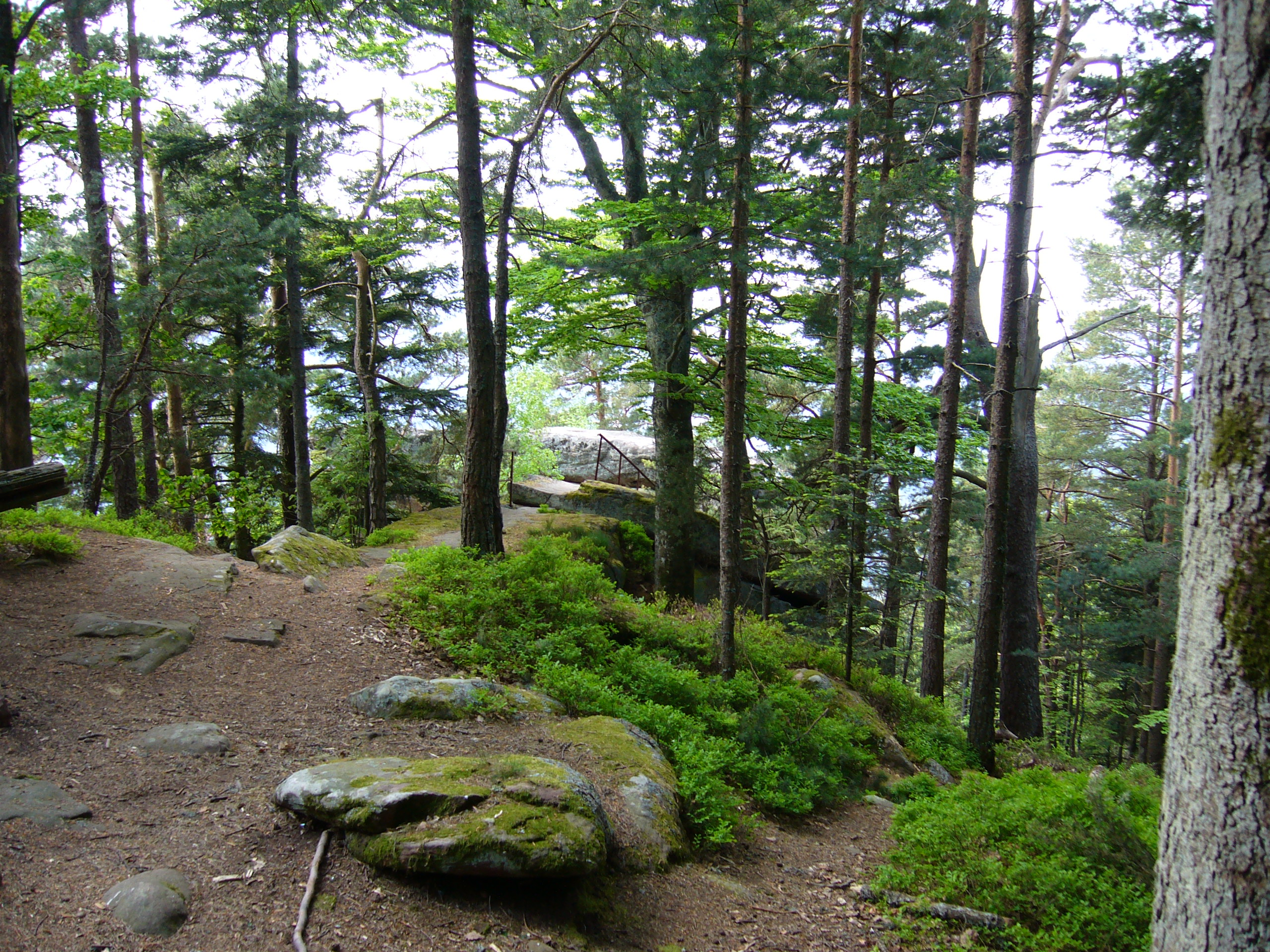 Chalmont 092.JPG